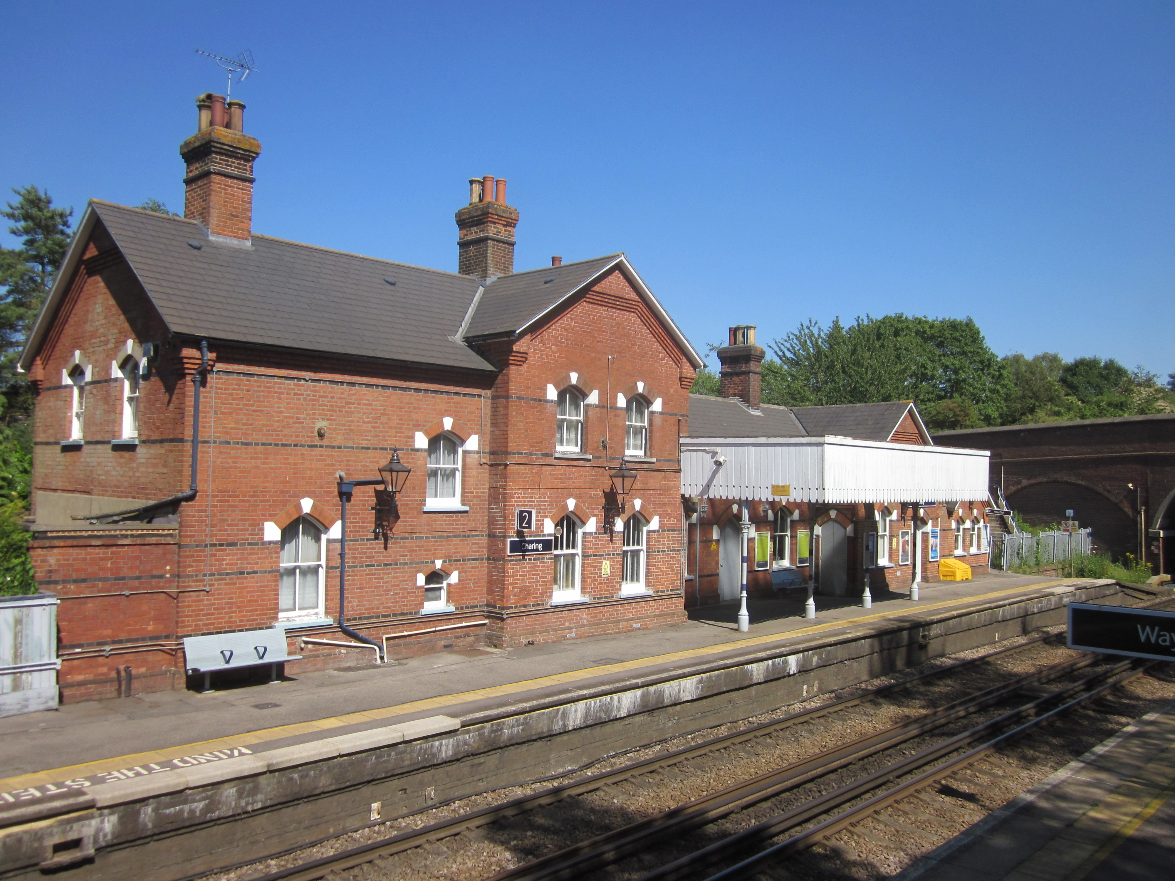 Main building of Charing railway station in Kent, from the south.